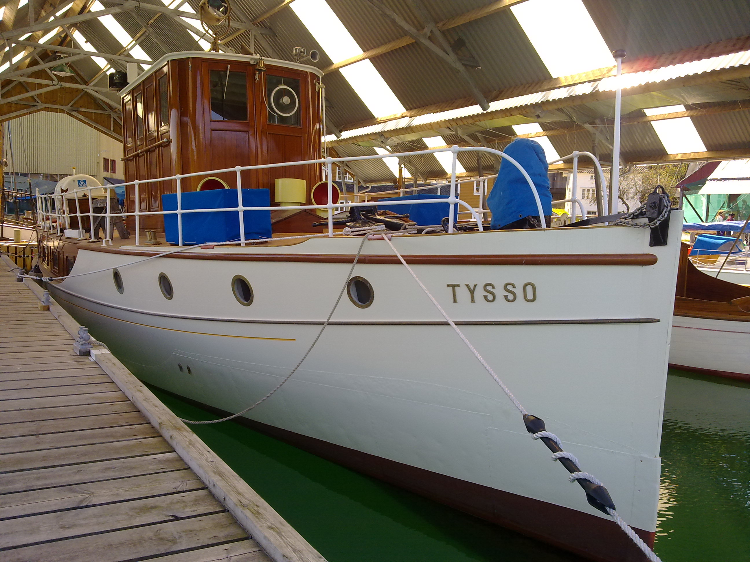 Motor yacht Tysso